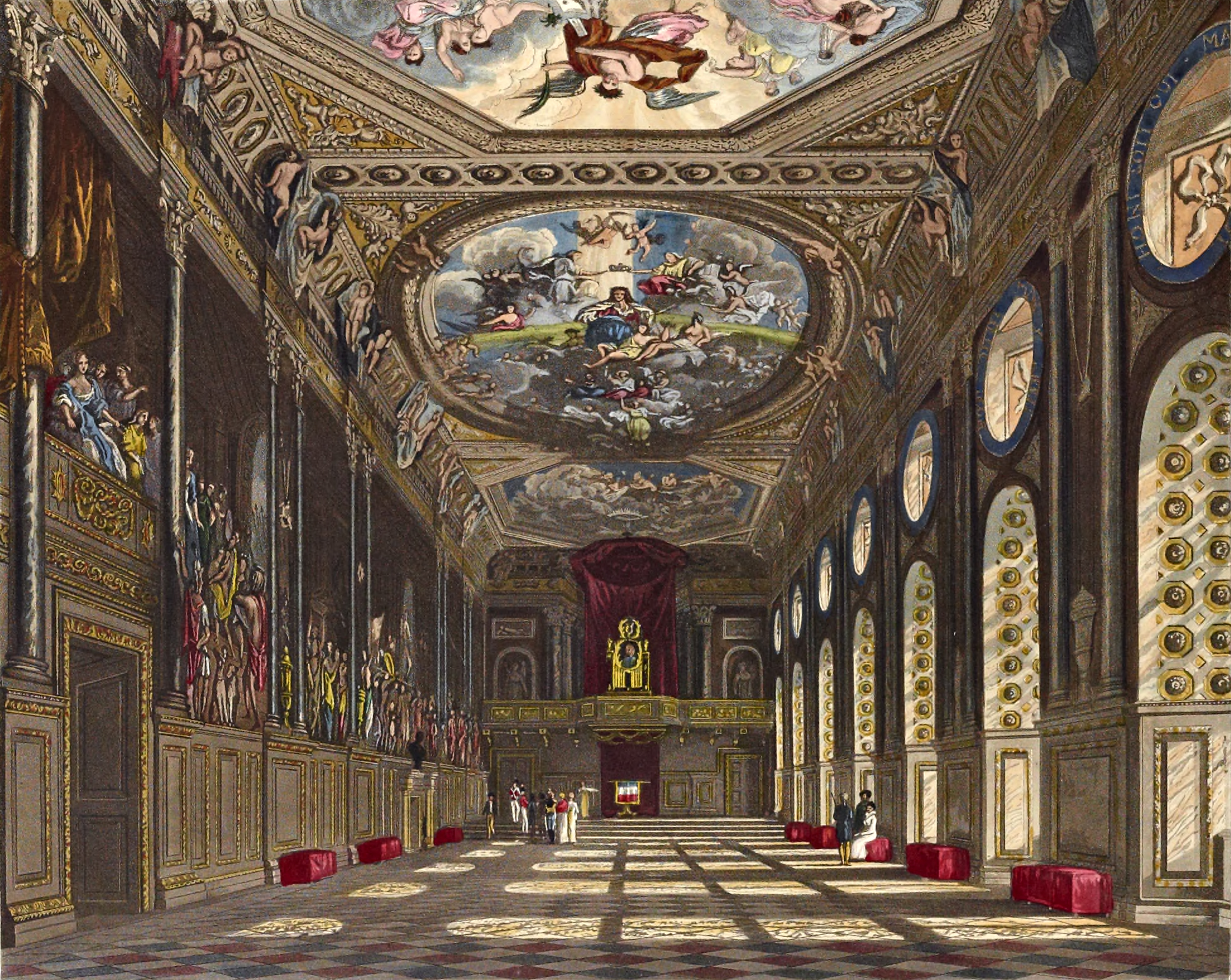 St George's Hall Windsor from W.H. Pyne's Royal Residences (1819), plate 20. This shows the baroque style of the work carried our at Windsor for Charles II by architect Hugh May, painted Antonio Verrio, carver Grinling Gibbons and others. St George's Hall was redecorated in the early 19th century, but several smaller interiors from this period survive.